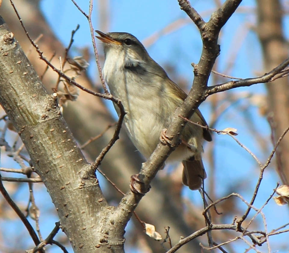 Cettia diphone cantans (Japanese Bush Warbler) crying, male in Japan